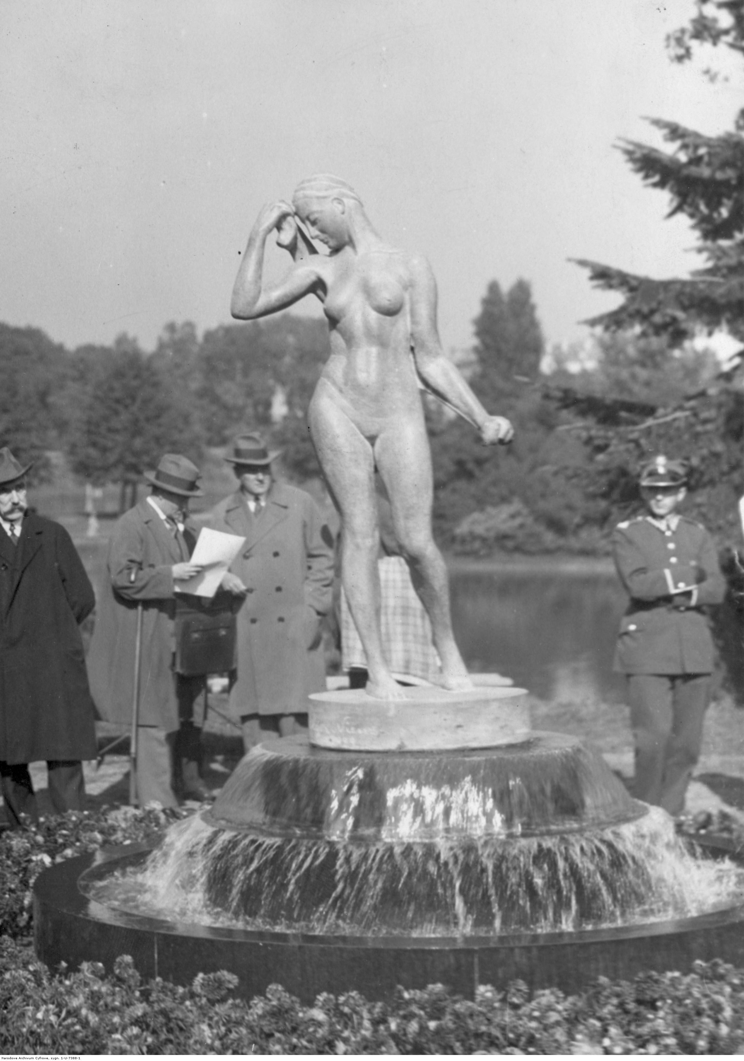 Warsaw. Skaryszewski Park. Sculpture of Olga Niewska.